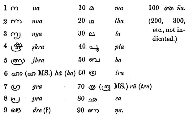 Aksharapalli numerals in Malayalam as given in "Grammar of the Malayalam Language" by Hermann Gundert published in 1868.